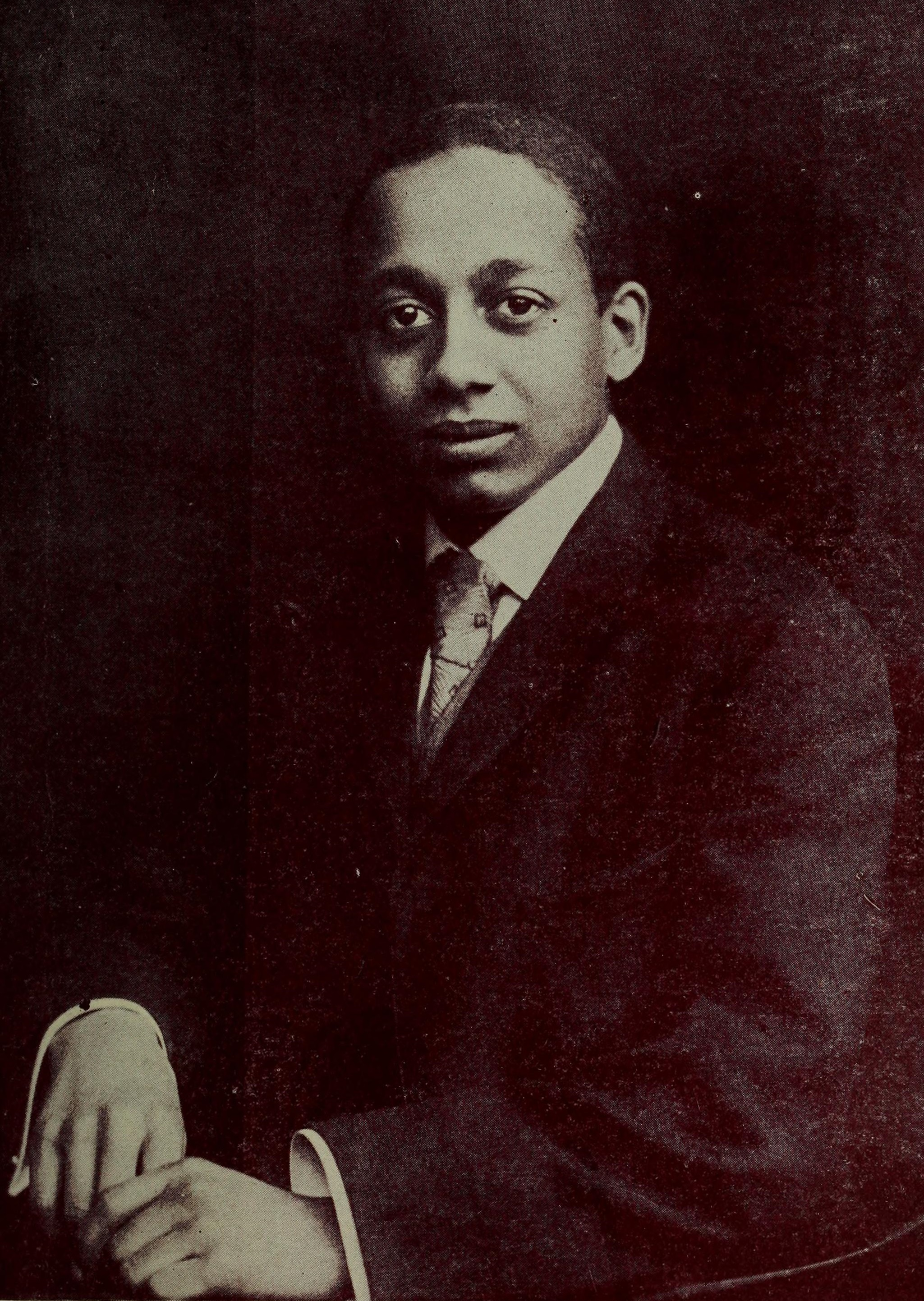 Alain LeRoy Locke Original caption: Alain LeRoy Locke of Pennslyvania, first colored winner of the Cecil Rhodes Oxford Scholarship